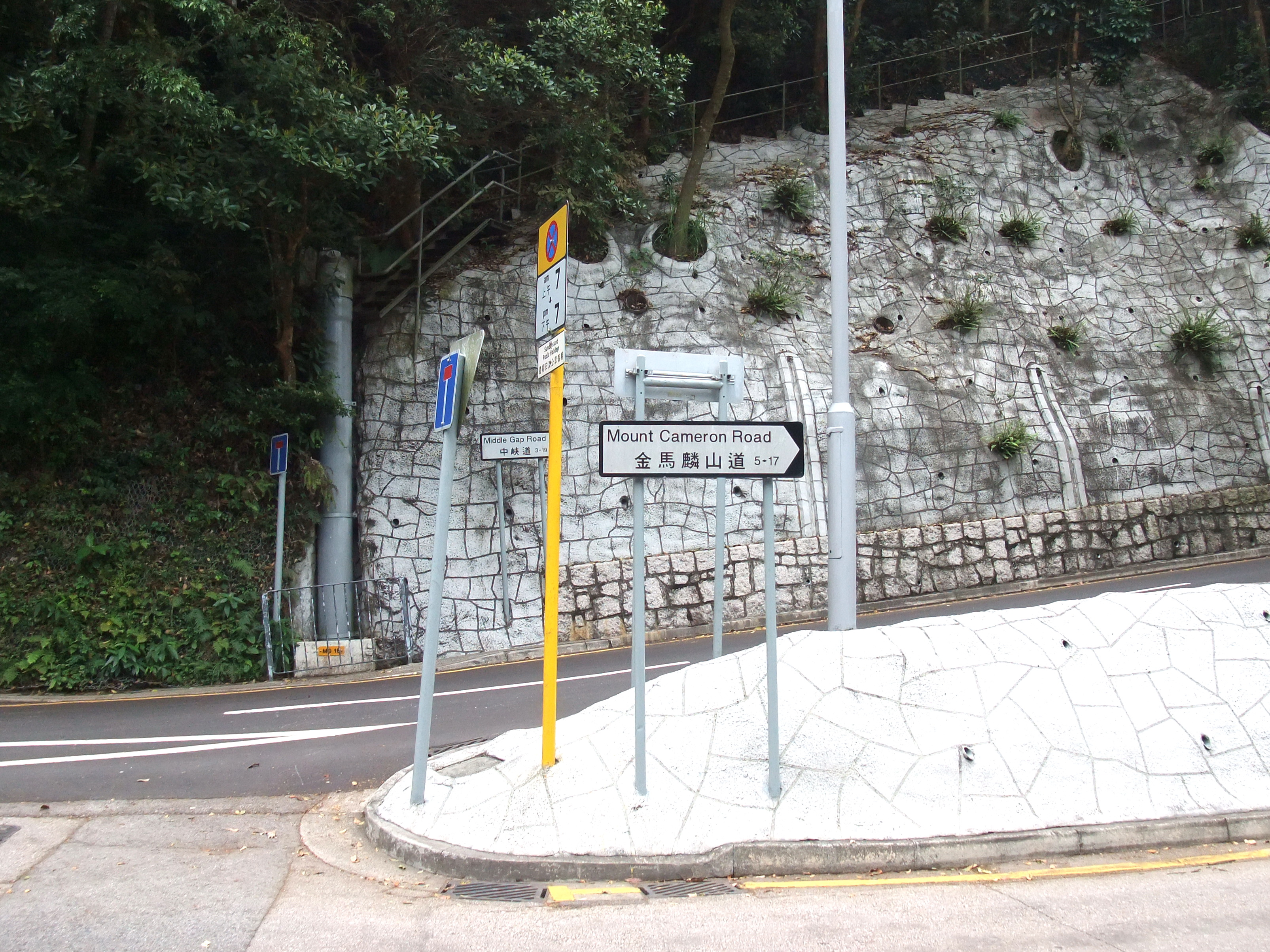 Mount Cameron Road and Middle Gap Road, Wan Chai, Hong Kong.